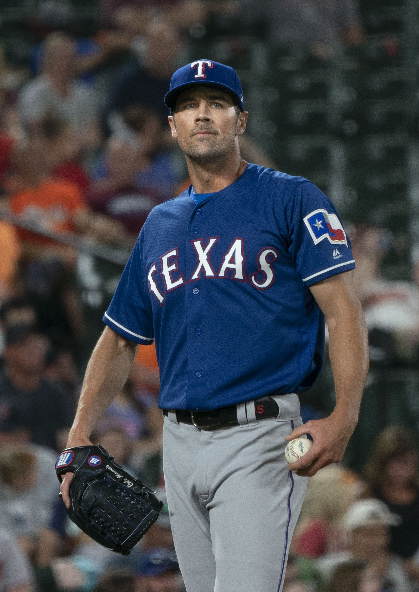 Rangers at Orioles 7/13/18